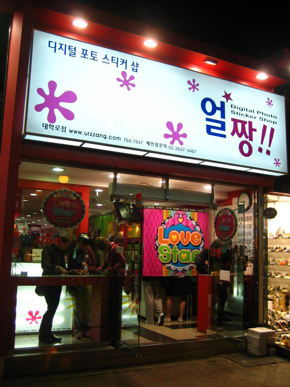 A photo sticker shop in Seoul, South Korea. Picture was taken with a Canon Power Shot SD450 Digital Elph camera and modified using a Paint Shop program on a laptop computer.